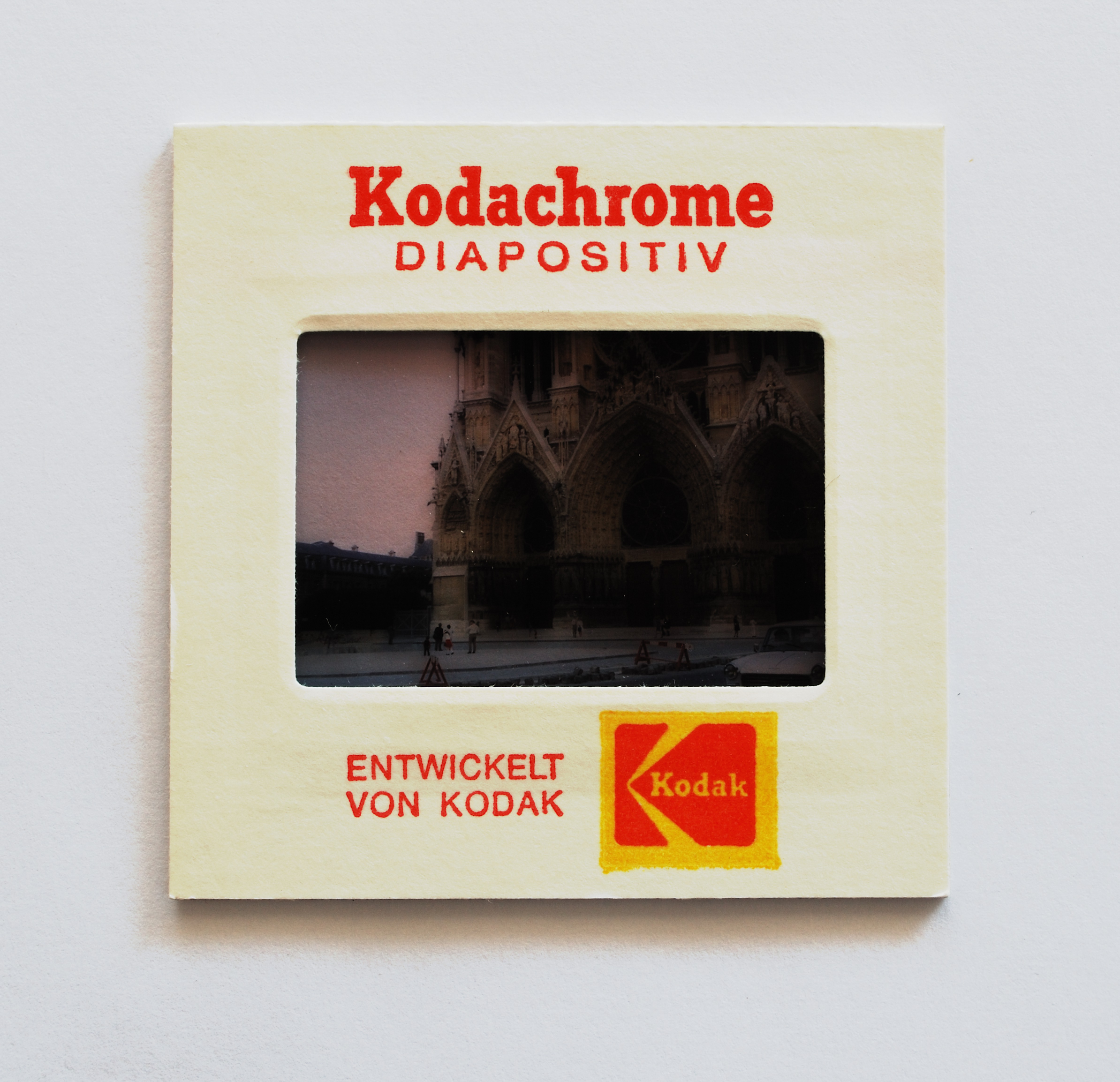 Kodachrome slide with a paper frame